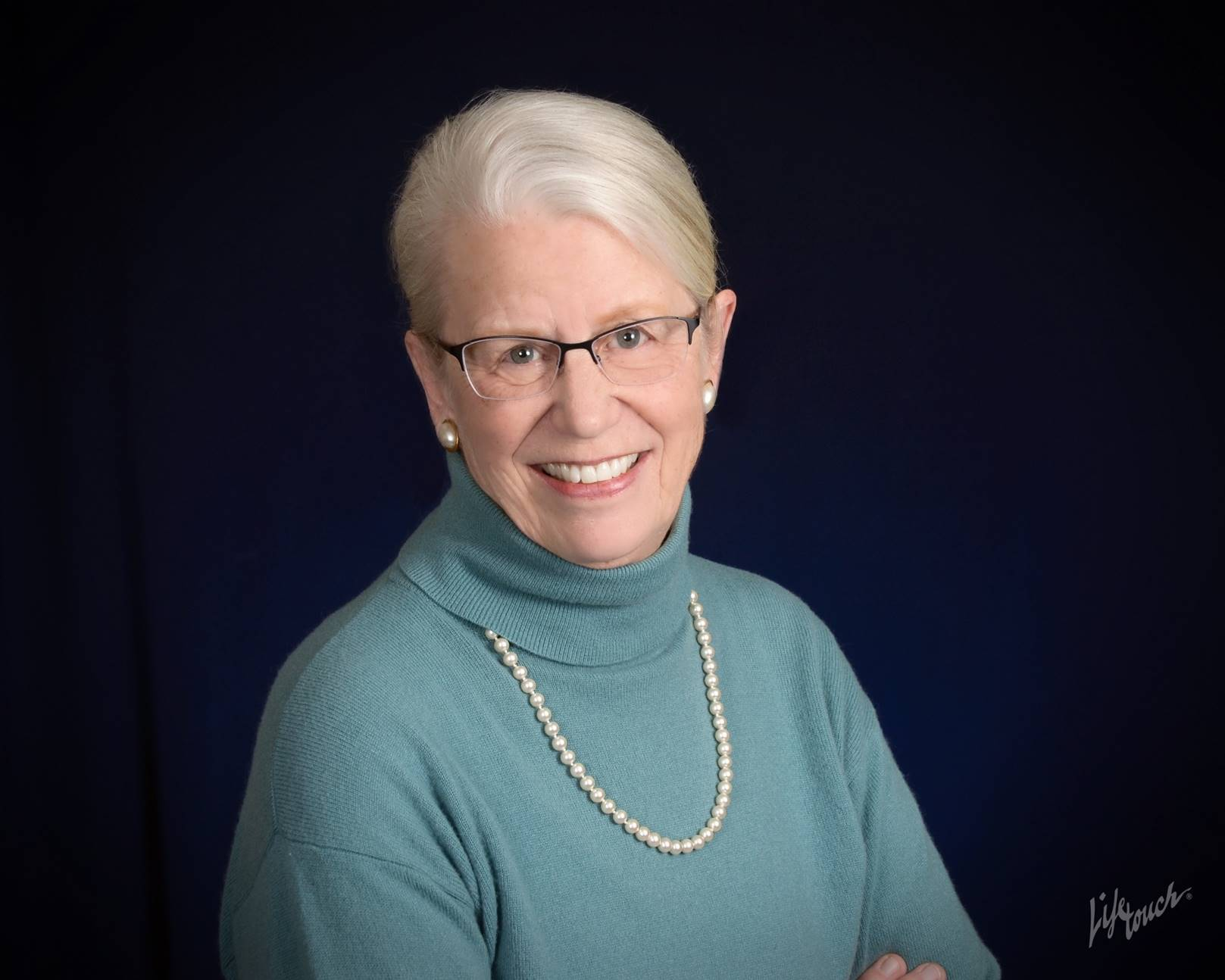 Headshot of Janet Beihoffer